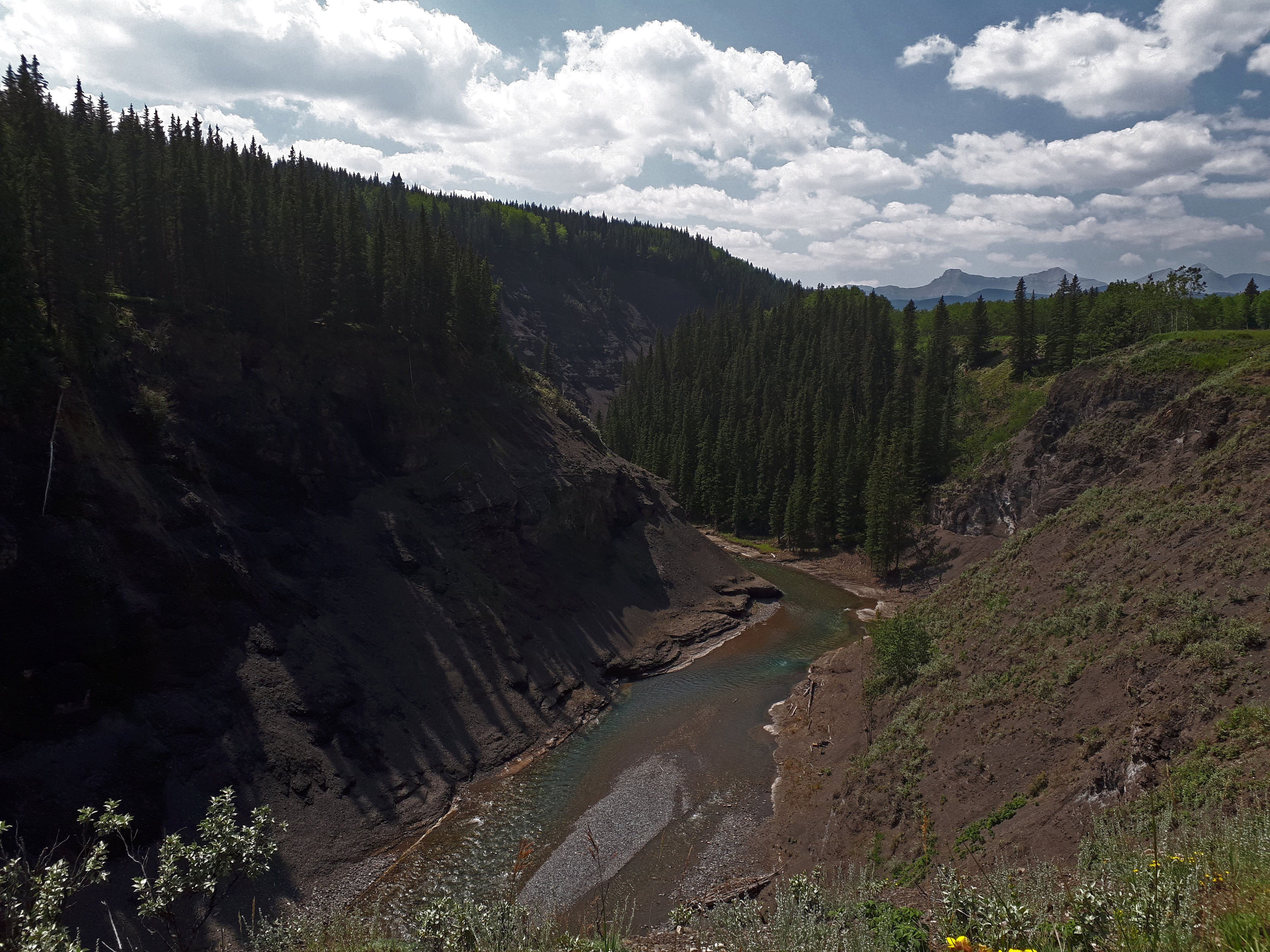 The gorge of the Sheep River in Kananaskis Country, Alberta